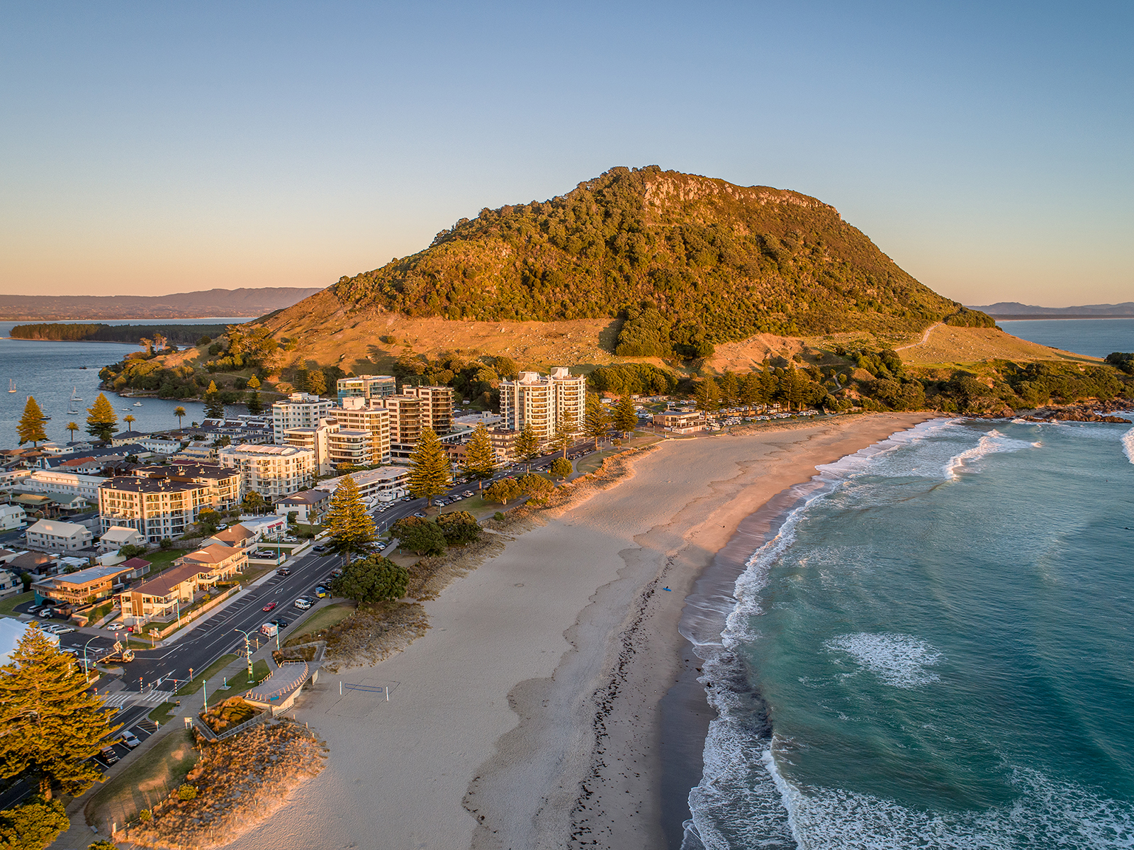 Drone shot aerial photography of Mount Maunganui at sunrise